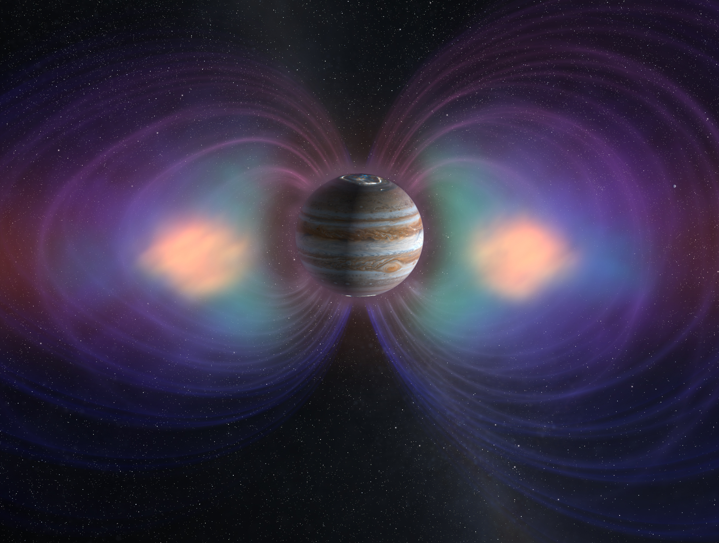 Original caption: Jupiter is shown with several important components of its magnetosphere in this artist's representation. The planet's magnetic field is represented by soft purple lines that connect its north and south magnetic poles. Jupiter's brilliant auroras glow at the poles, while the bright areas to the left and right of the planet's equator represent the regions of most intense charged particle radiation - Jupiter's inner radiation belts. The Juno spacecraft will, broadly speaking, pass between the planet and the most intense areas of radiation. This view visualizes only the inner part of the magnetosphere. The complete Jovian magnetosphere is an enormous, tadpole-shaped structure that balloons out to dozens of Jupiter widths around the planet. In the direction away from the sun, the magnetotail extends as far as the orbit of Saturn.